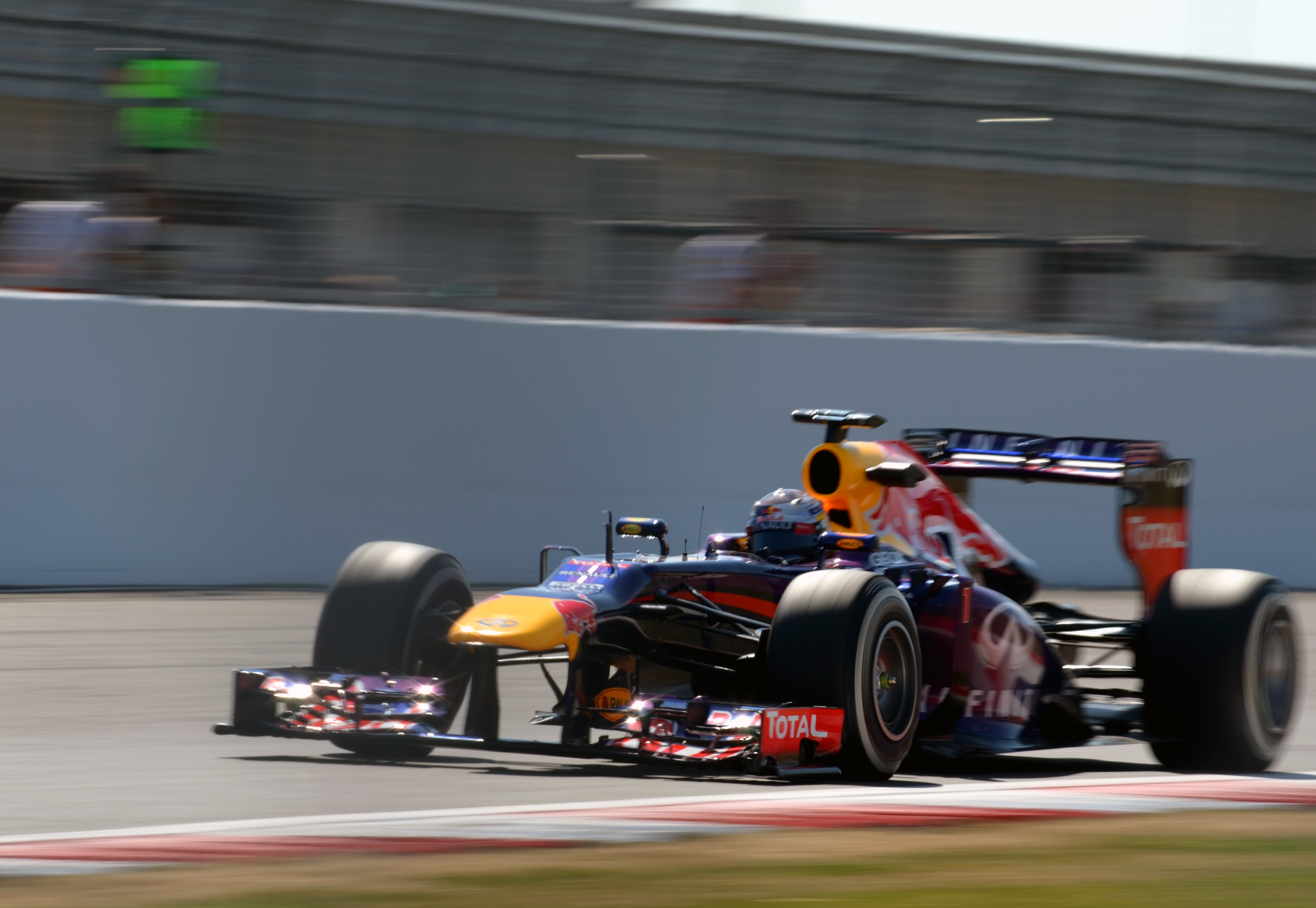 Sebastian Vettel driving the Red Bull RB9 at the Young Drivers' Test at Silverstone.